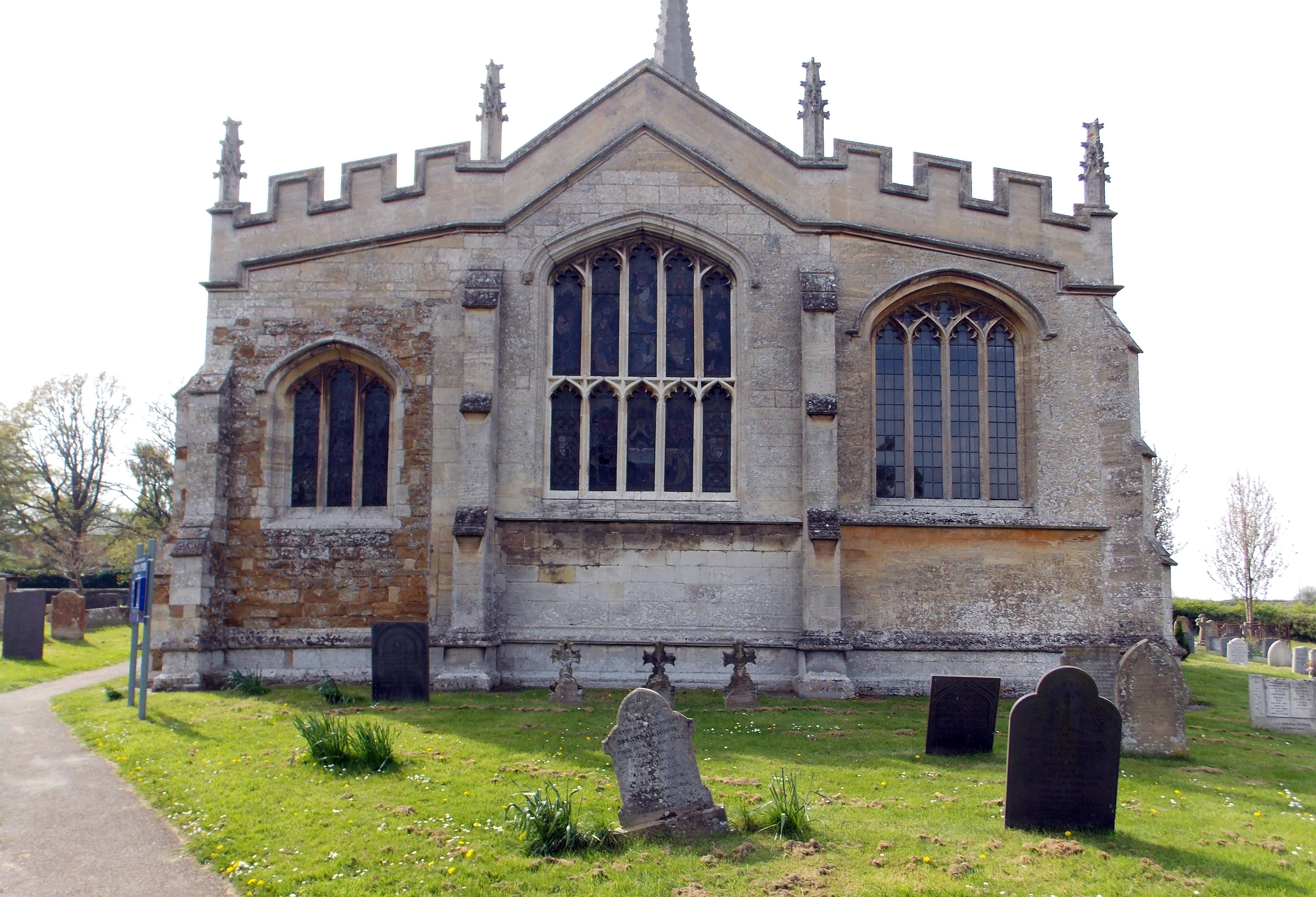 SS Mary and Peter's parish church, Harlaxton, Lincolnshire, seen from the east